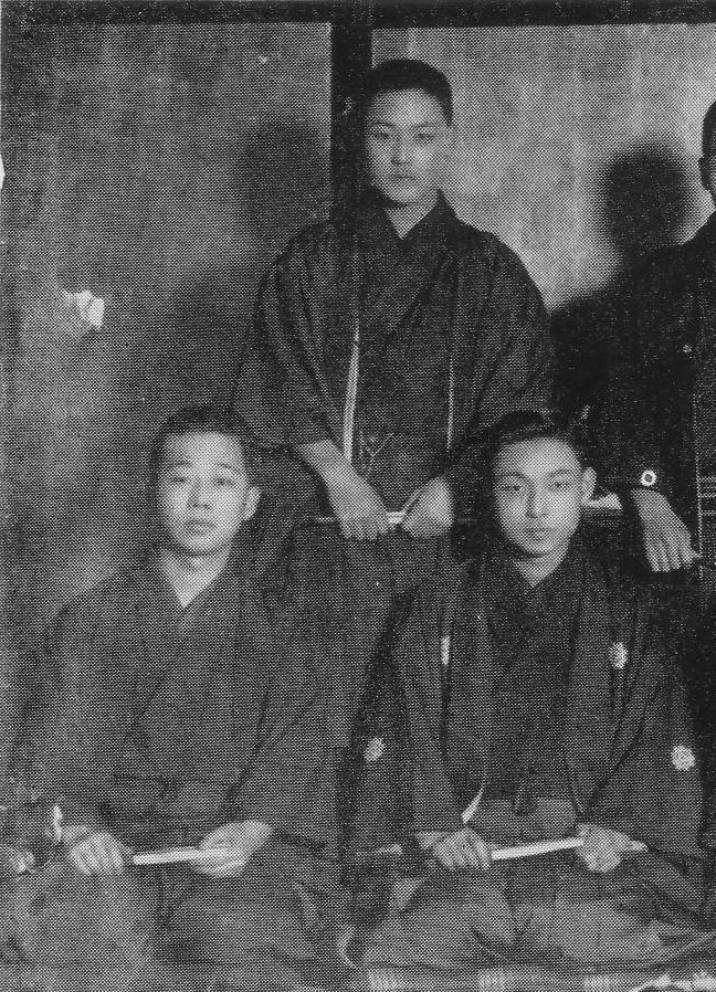 Kingorō Yanagiya(left), Enshō San'yūtei VI(right), Enko Tachibanaya(center). All three Rakugoka. taken in 1921.